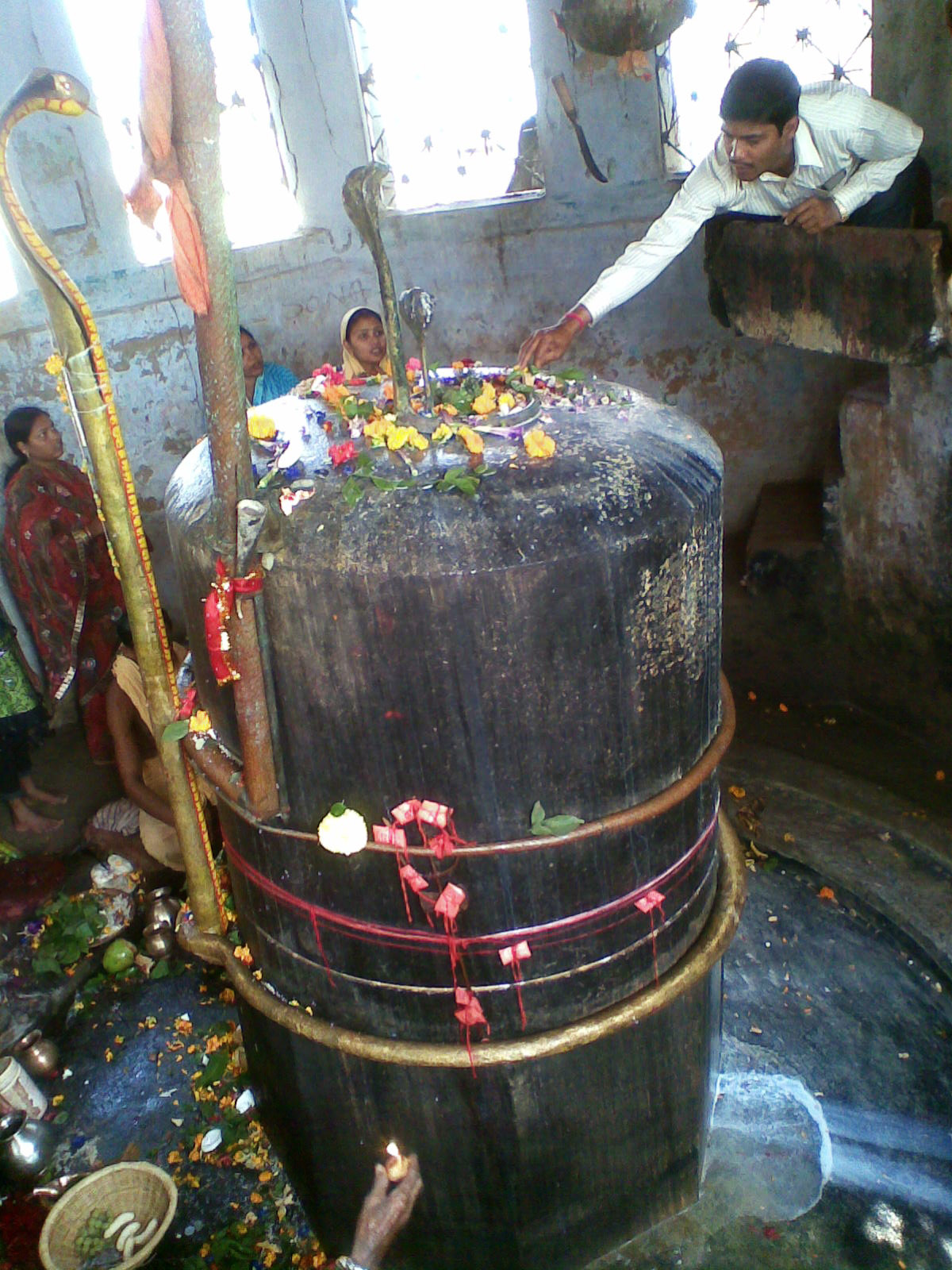 This picture of Bhusandeswara Siba Linga, largest Shiba Lingam of Asia was taken by Subhransu Sekhar and donated to Wikipedia for public usage.